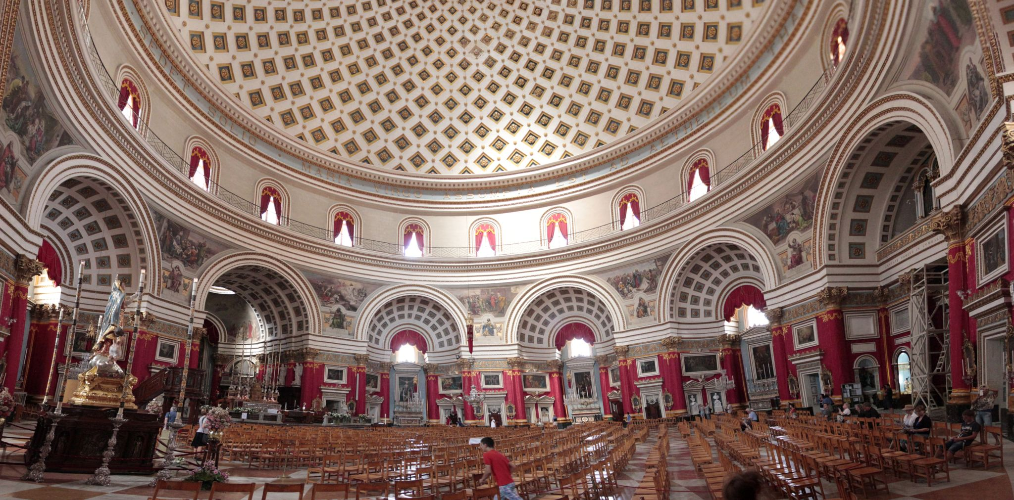 Inside Mosta Dome